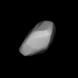 3D convex shape model of 1339 Désagneauxa, computed using light curve inversion techniques. J. Hanuš, J. Ďurech, M. Brož, B. D. Warner (June 2011). "A study of asteroid pole-latitude distribution based on an extended set of shape models derived by the lightcurve inversion method". Astronomy and Astrophysics 530: A134. ISSN 0004-6361. arXiv